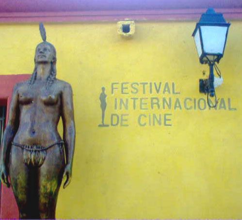 Cartagena Film Festival office